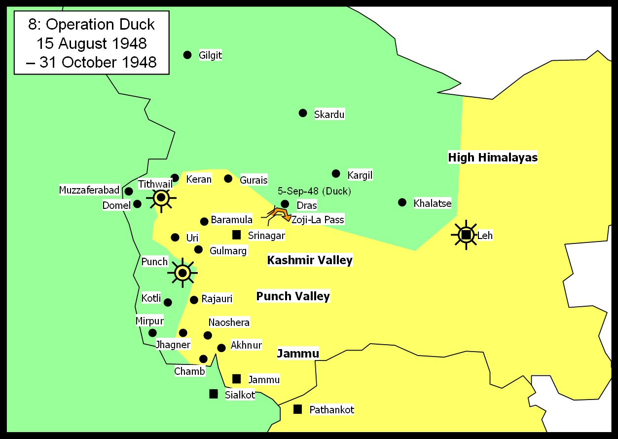 Author Mike Young